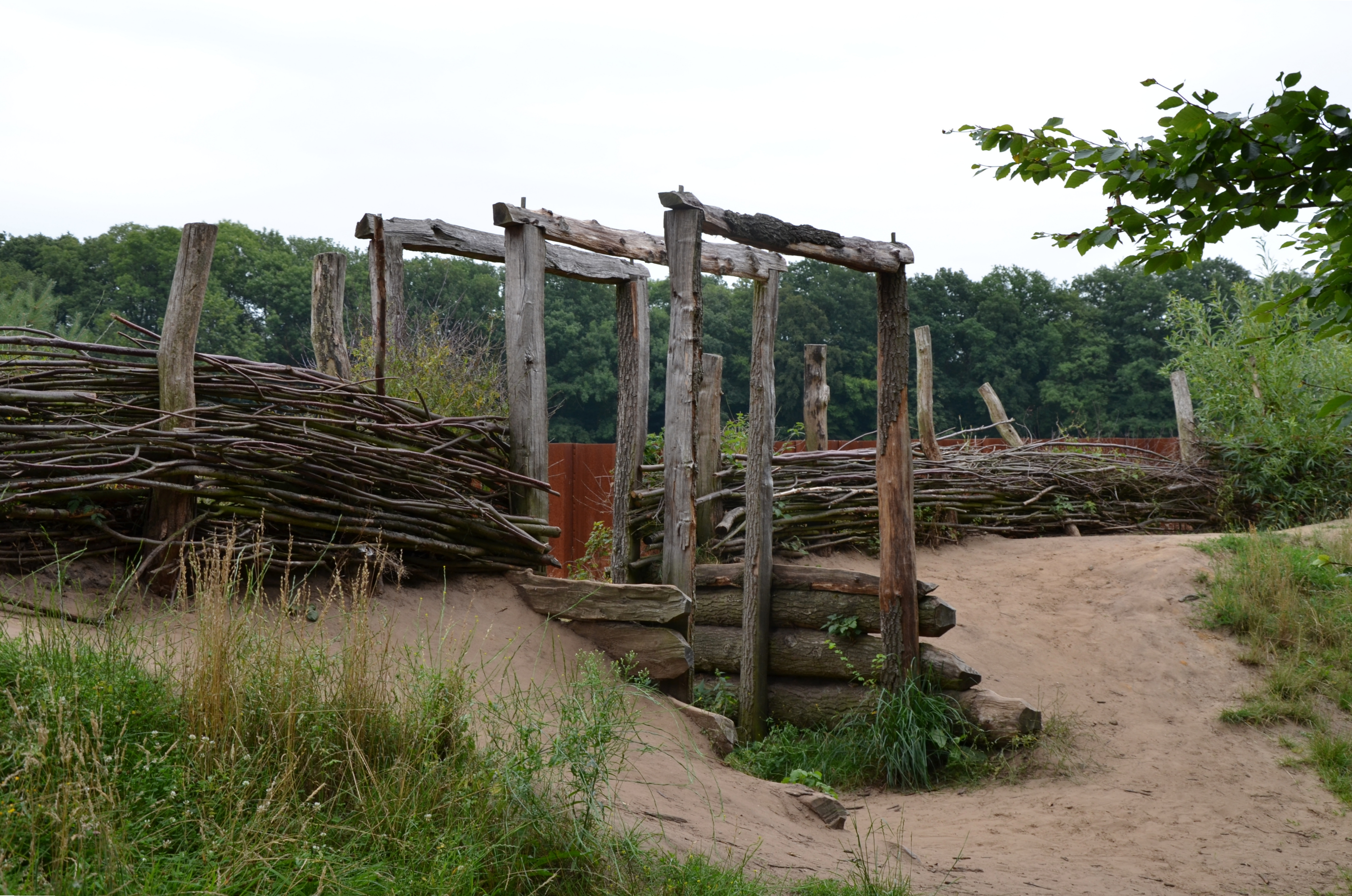 Reconstruction of the improvised fortifications prepared by the Germanic tribes for the final phase of the Varus battle, Museum und Park Kalkriese, Germany